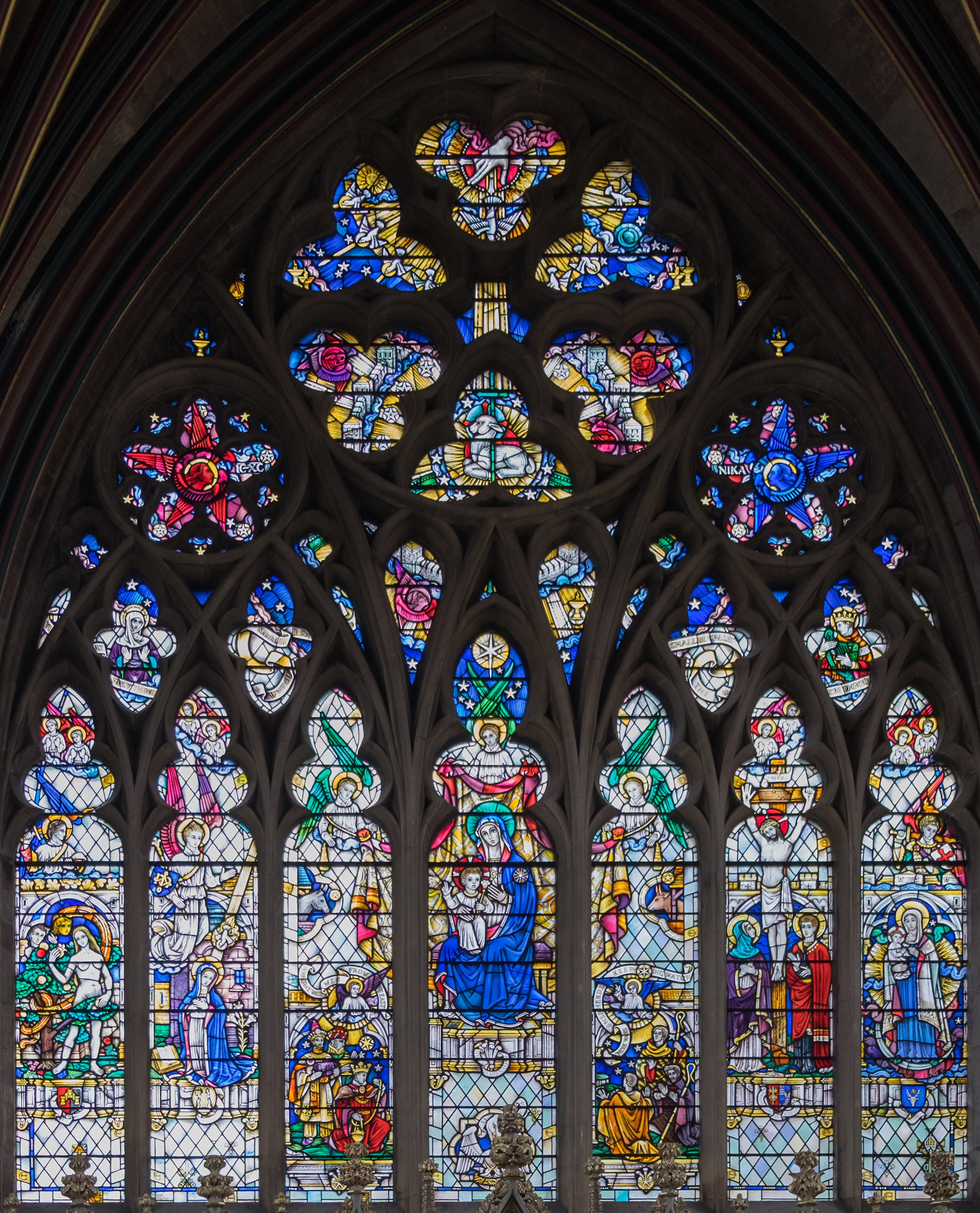 The east window in Lady Chapel Exeter Cathedral, designed by Dorothy Marion Grant (1951).